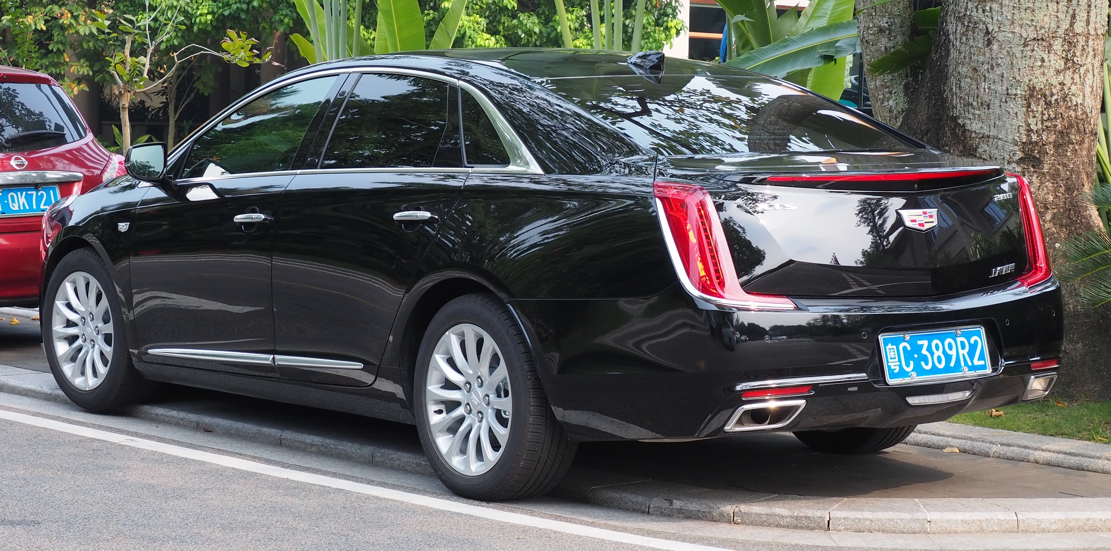 A 2018 Cadillac XTS photographed in Zhongshan, Guangdong province, China. 中文（中国大陆）: 一辆2018年的凯迪拉克XTS，摄于中国广东省中山市。